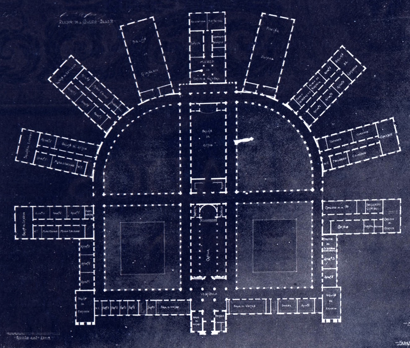 Colegio de Belen_Floor plan, Havana, Cuba